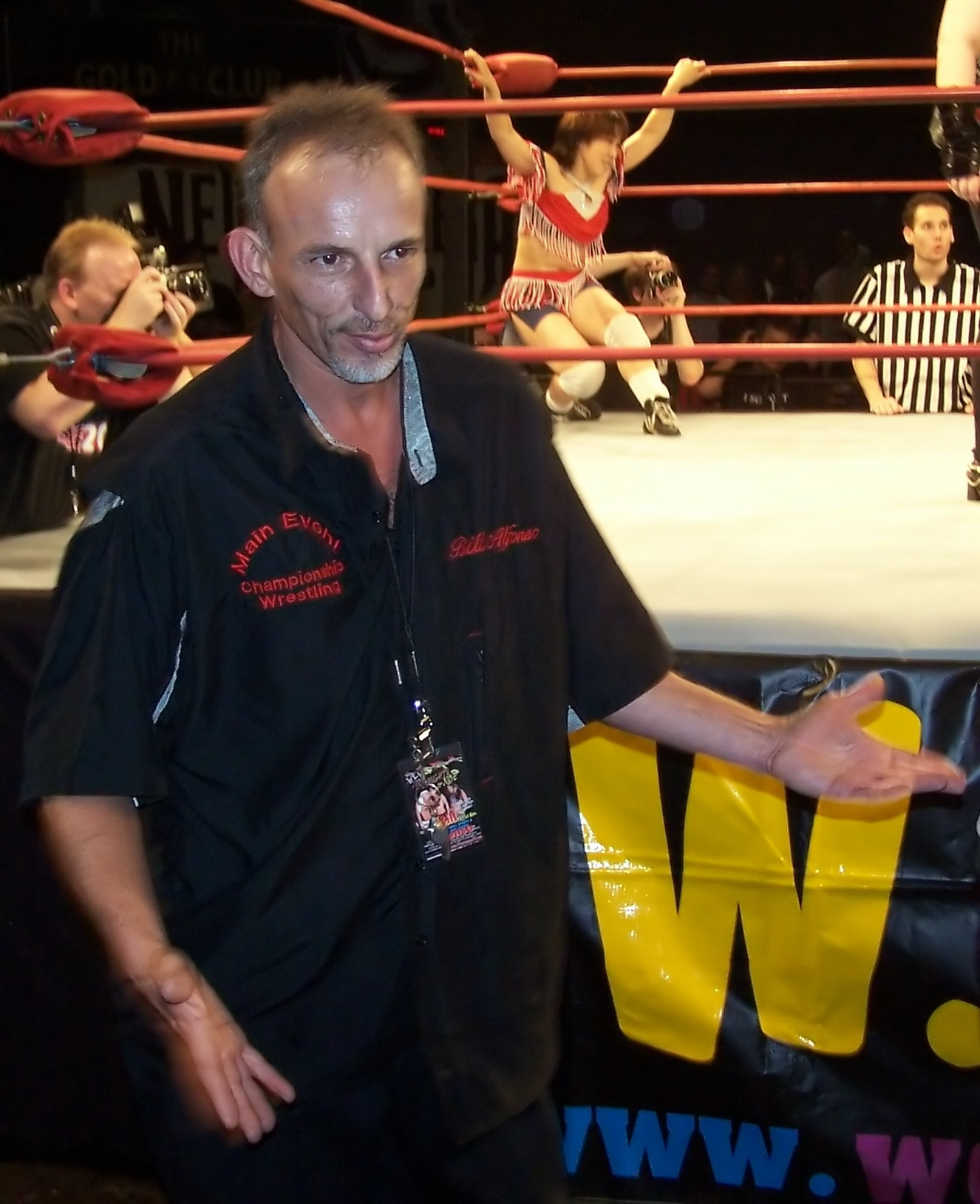 Photo of Bill Alfonso taken at a Women's Extreme Wrestling (WEW) event.